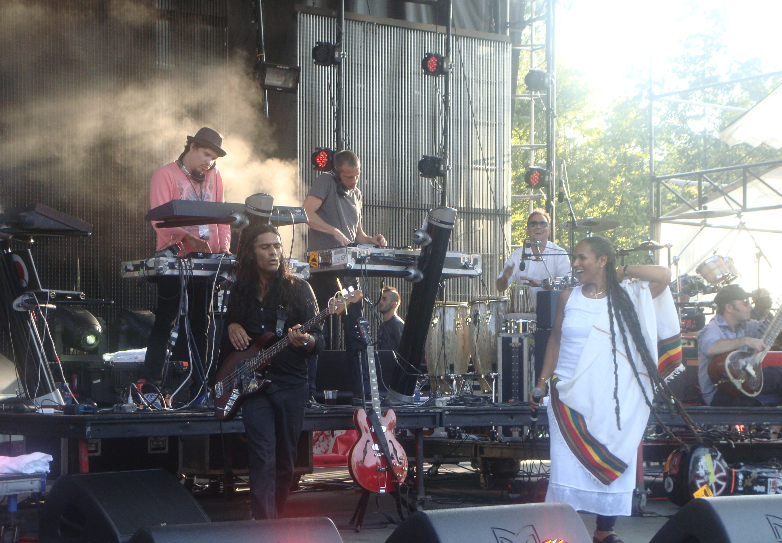 Virgin Mobile Fest 2010 - Thievery Corporation